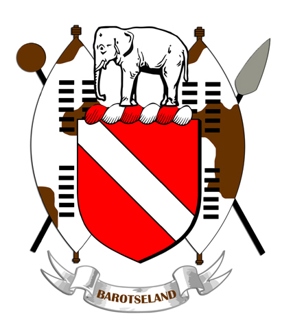 Barotseland Coat of Arms